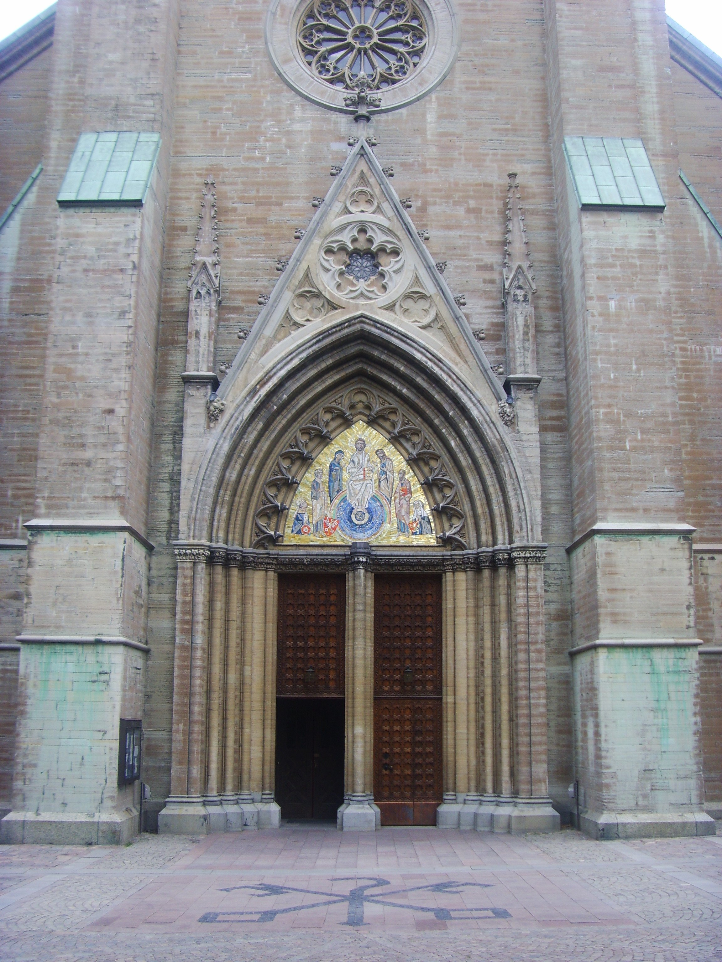 The Cathedral of Linköping.